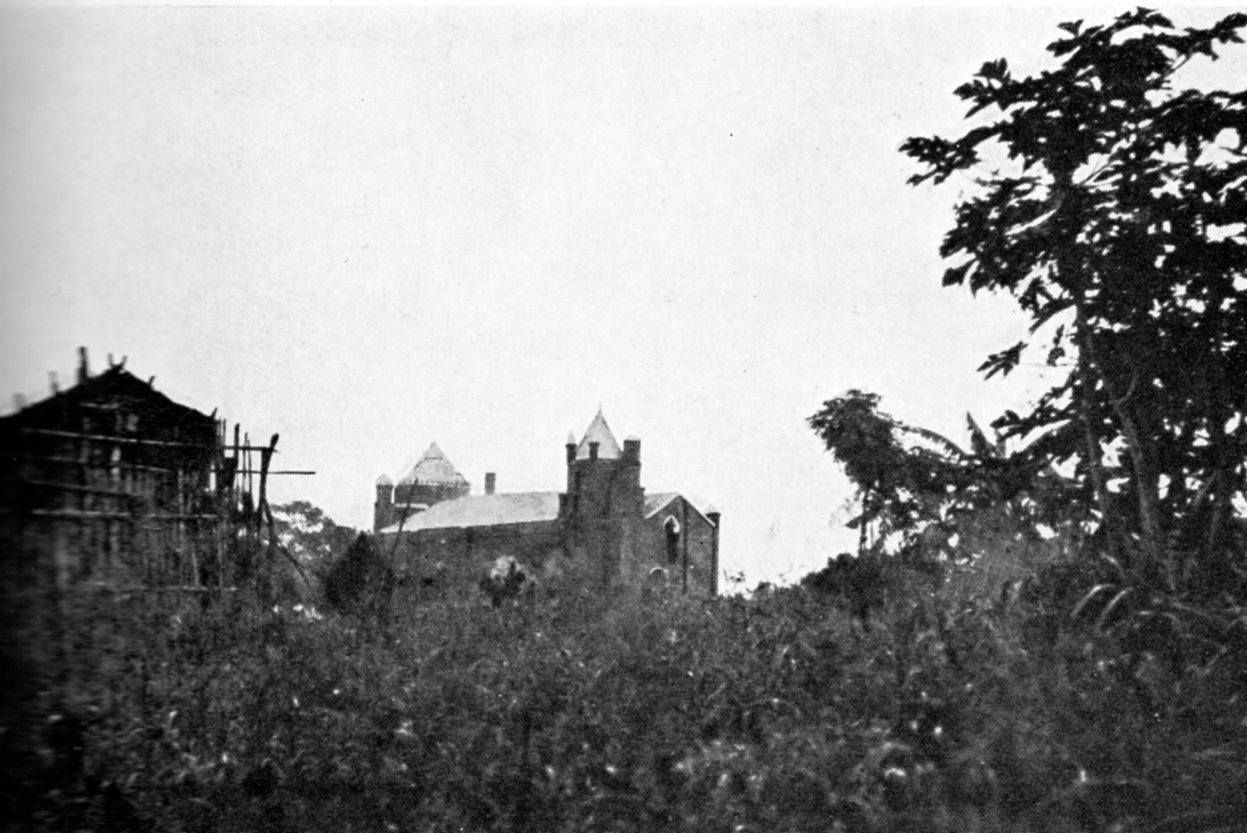 View of the church of the Providence Industrial Mission in Mbombwe, Nyasaland (1915)